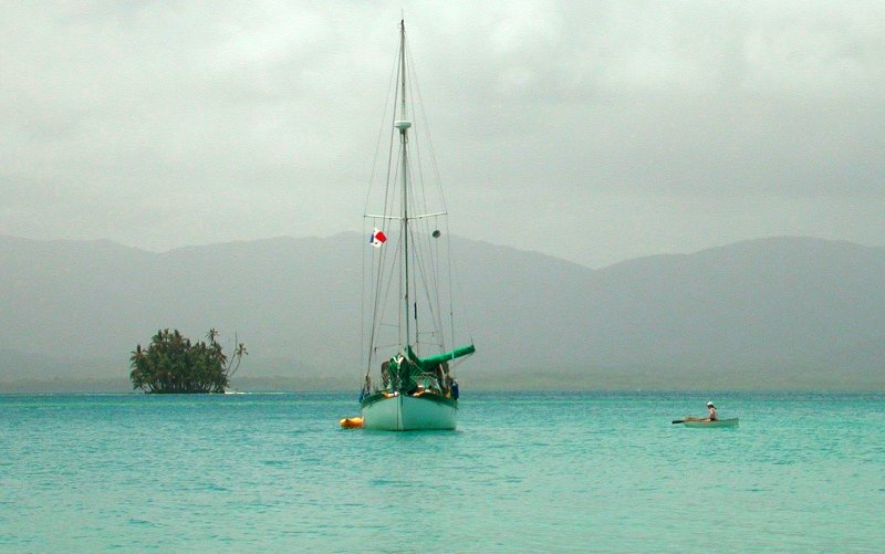 A cruising sailboat at Green Island, in the San Blas Islands, Panama. The mainland of Panama is in the background.